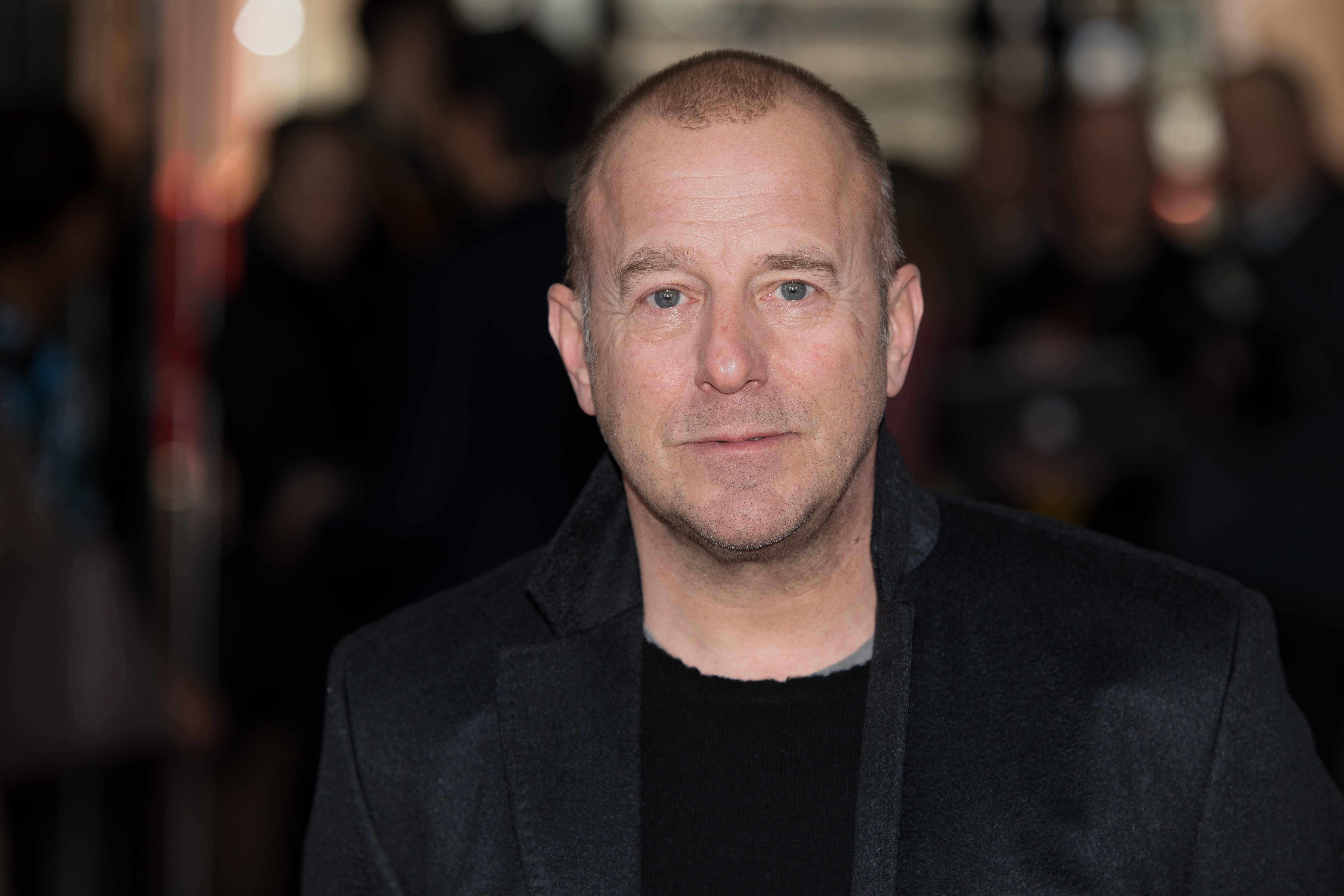 Heino Ferch at the reception of the state government of Hesse, Berlinale 2018